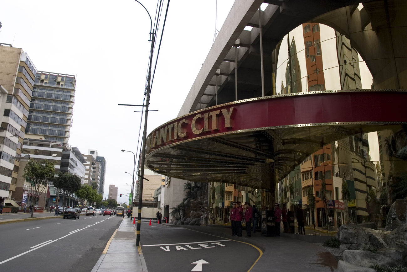 Exterior of Atlantic City casino in Lima, Peru.